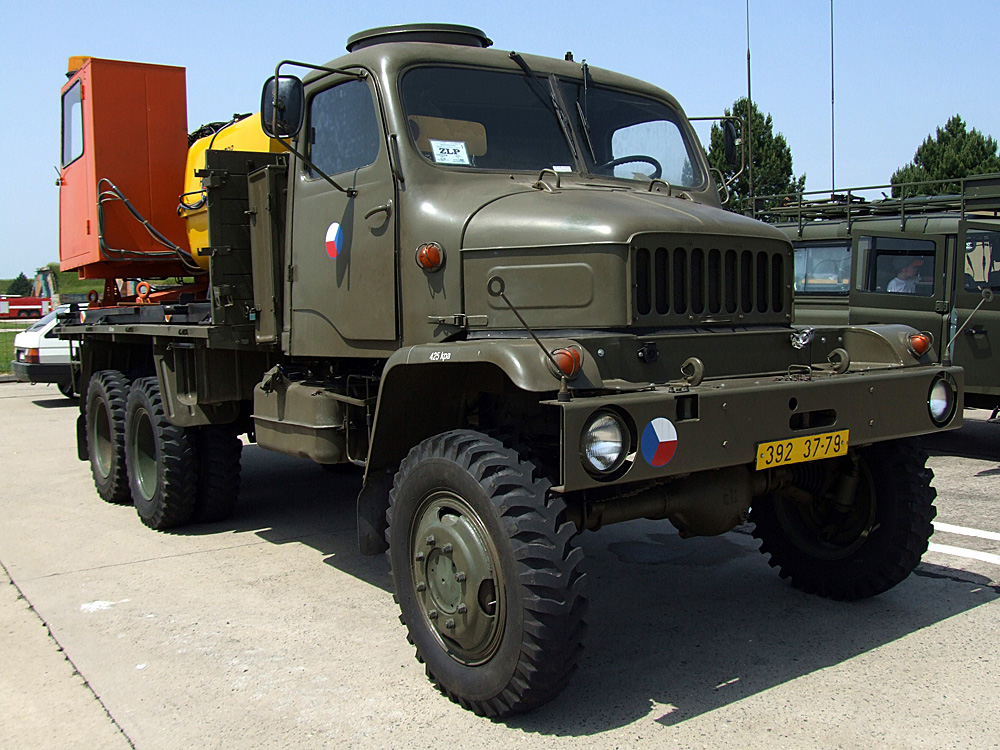 De-icing equipment OZ-88, Praga V3S